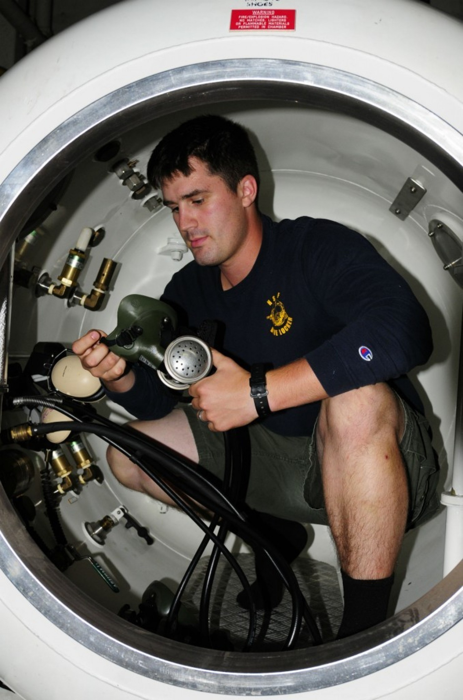 Petty Officer 2nd Class Ryan Harris of Mobile Diving and Salvage Unit 2 (MDSU 2)-Company 24 inspects a oxygen mask in one of his mobile recompression chambers aboard USS Wasp (LHD 1). Wasp along with 27 other Naval Station Norfolk-based ships sortied east into the Atlantic Ocean Aug. 25, 2011, to avoid any ill-effects of Hurricane Irene. Harris was subsequently killed in a diving accident during training on February 26, 2013. (U.S. Navy photo by Seaman Jah'mai C.J. Stokes)